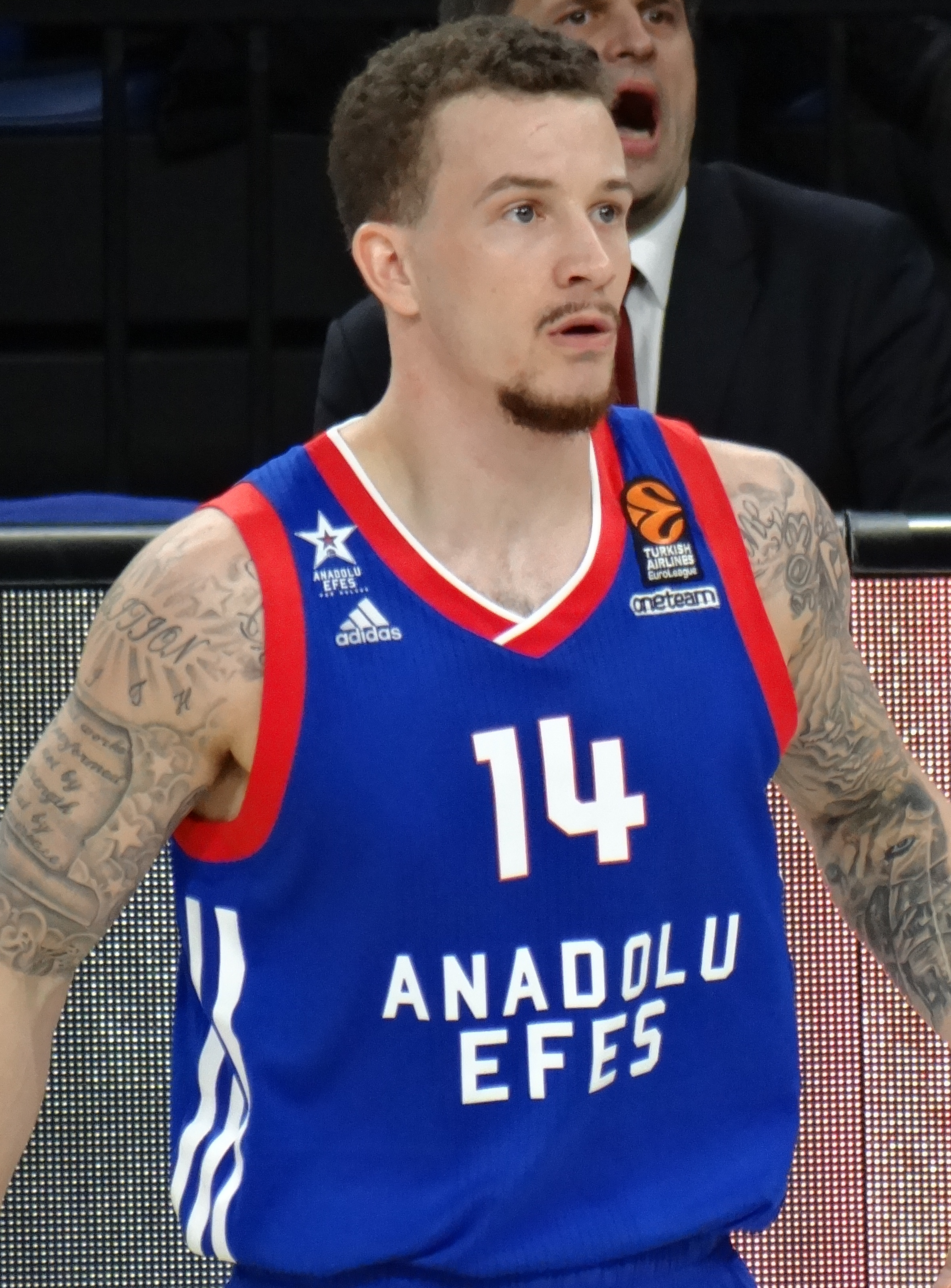 Josh Adams 14 - Anadolu Efes S.K. 20171215